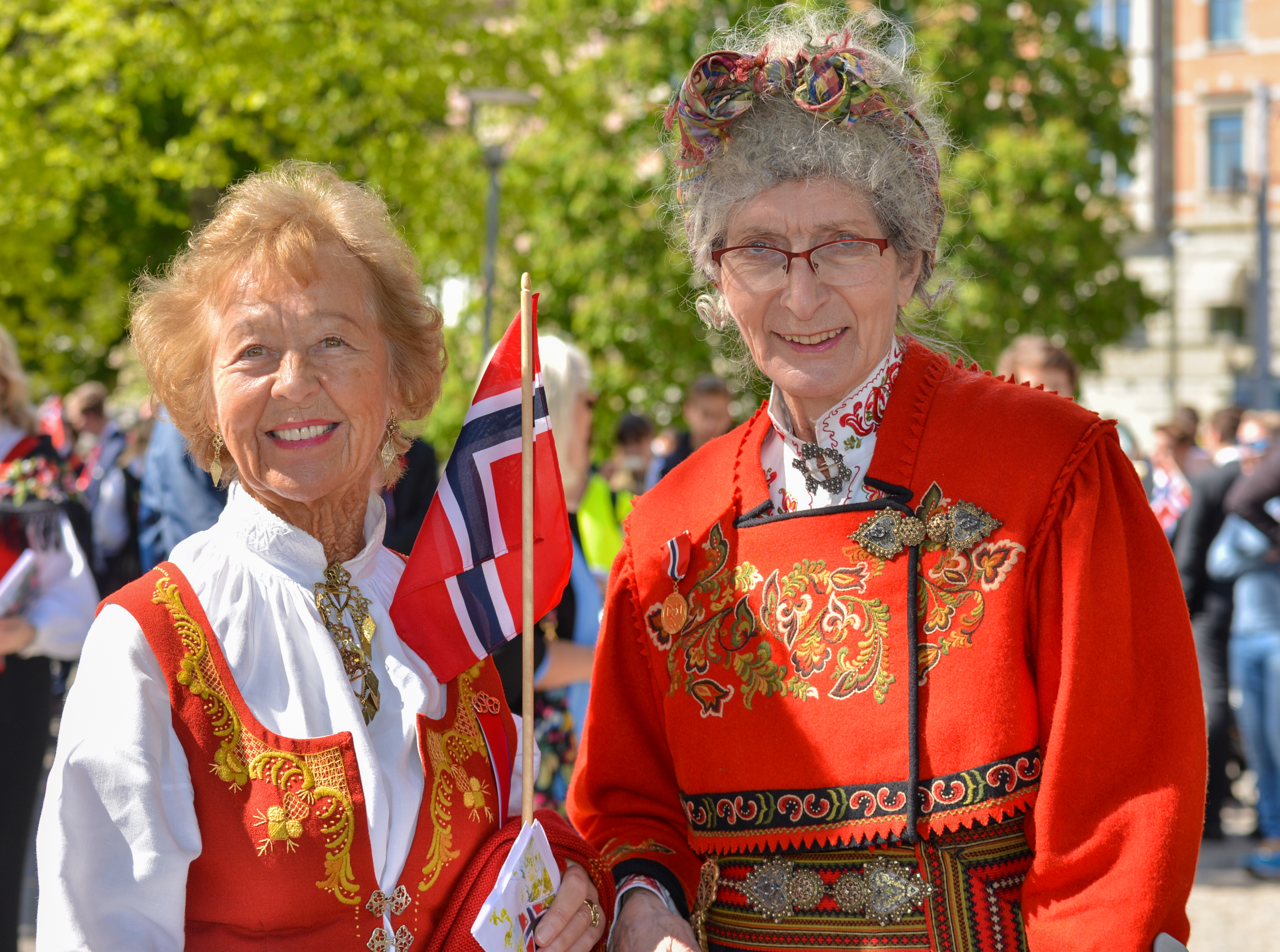 Norwegian Constitution Day 2019 in Stockholm.